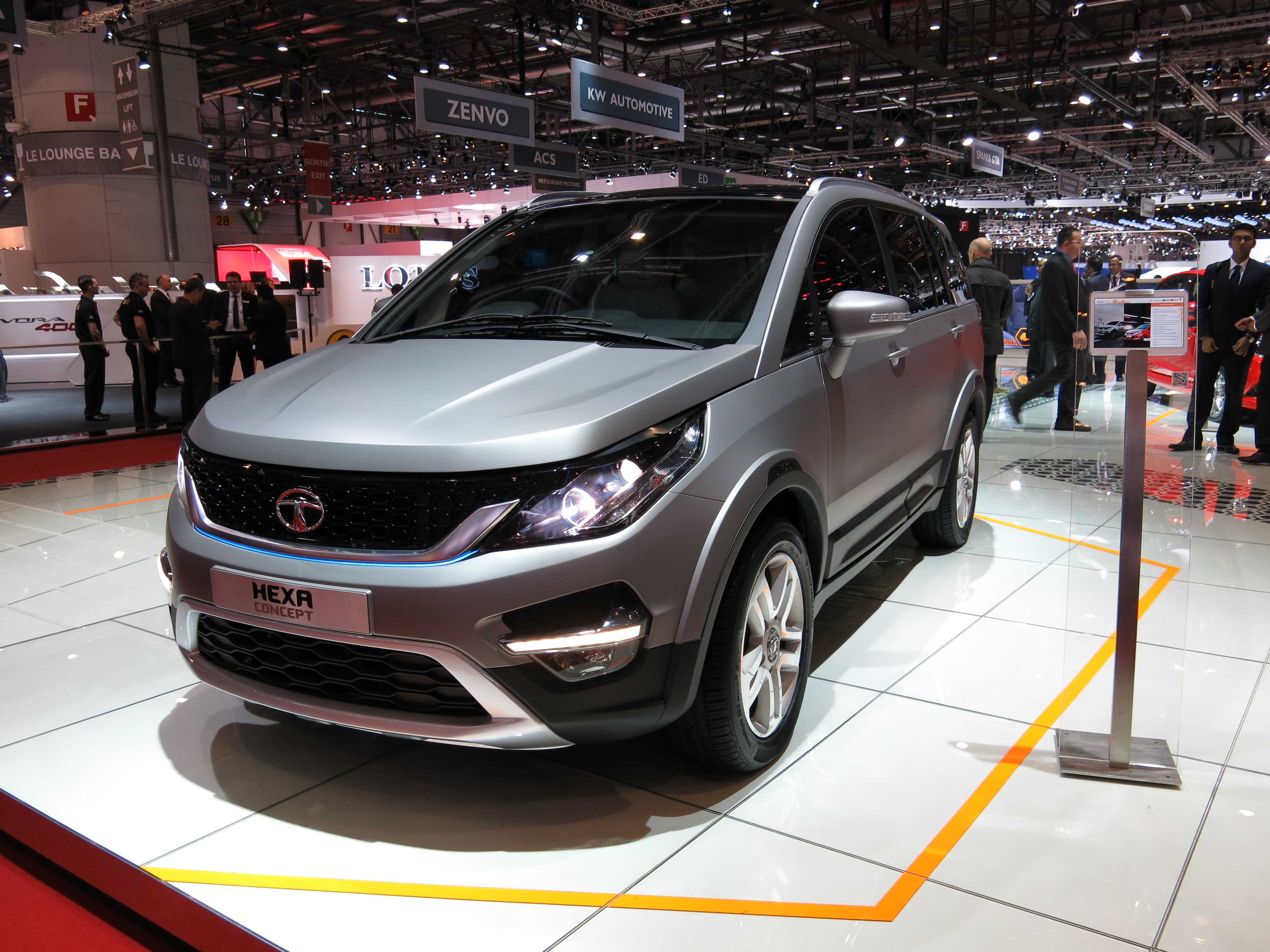 Geneva Motor Show 2015 (photo taken on the first press day)